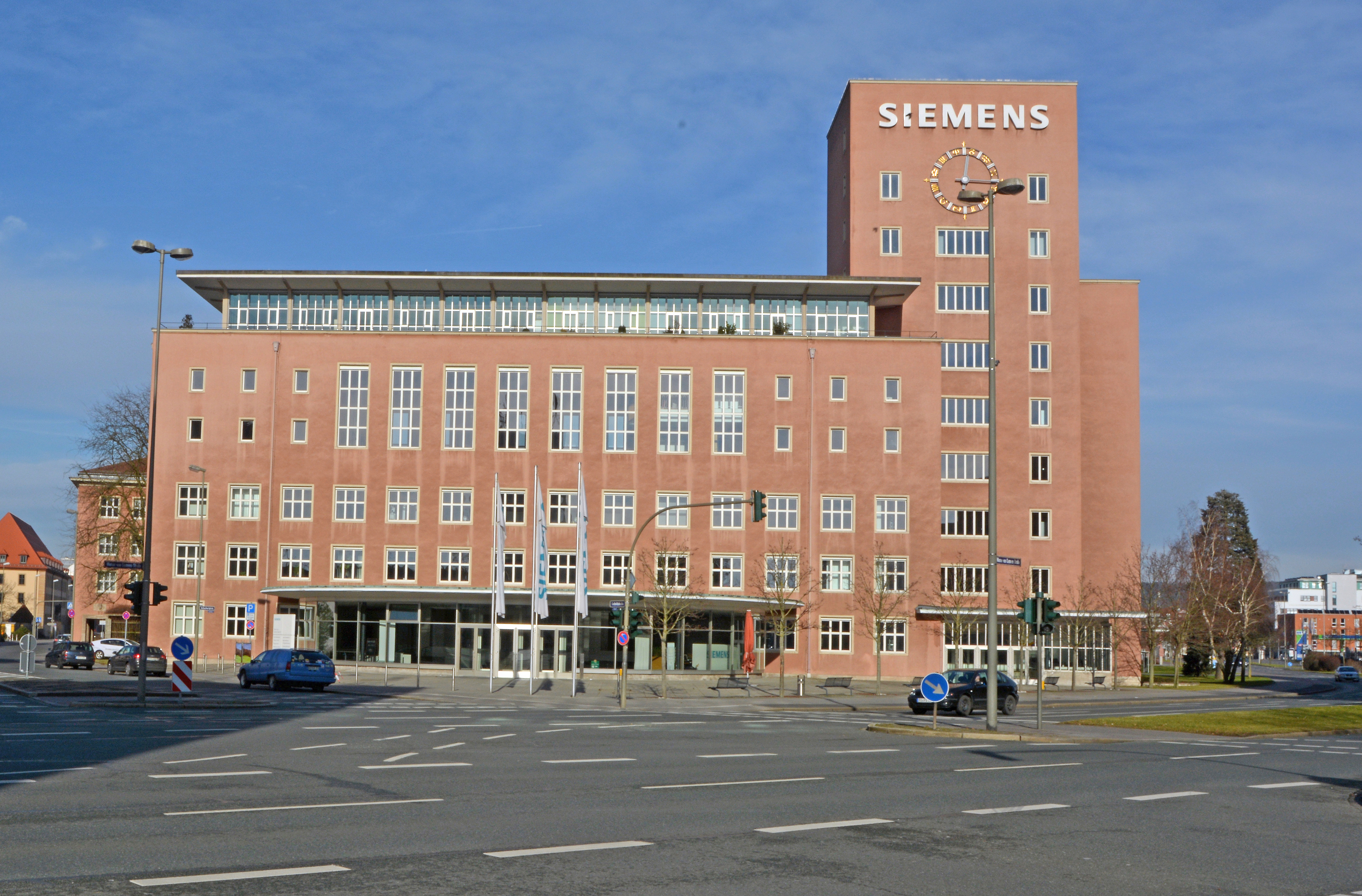 Builded in 1948 up to 1953 the main administration building of the Siemens-Schuckertwerke (since 1966 Siemens AG) on Werner-von-Siemens-Straße 50 in Erlangen (Germany), Architect: Hans Hertlein - called "Himbeerpalast"